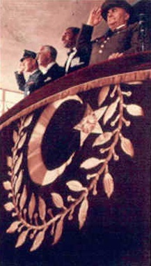 General CEMAL GÜRSEL and General Norstad, USAF, at the Republic's Anniversary Ceremony, October 29, 1960. List of figures from left to right with posts at the time: USAF General Lauris Norstad, Supreme Allied Commander Europe, Shape (Supreme Headquarters Allied Powers In Europe) Turkish Foreign Minister Selim Sarper and Unidentified Protocol Officer, and Turkish Prime Minister Cemal Gursel. Painting from the United States Air Force Art Program, Catalog Number 1961.026, Artist: James Bama. Image available from: USAF Art Collection